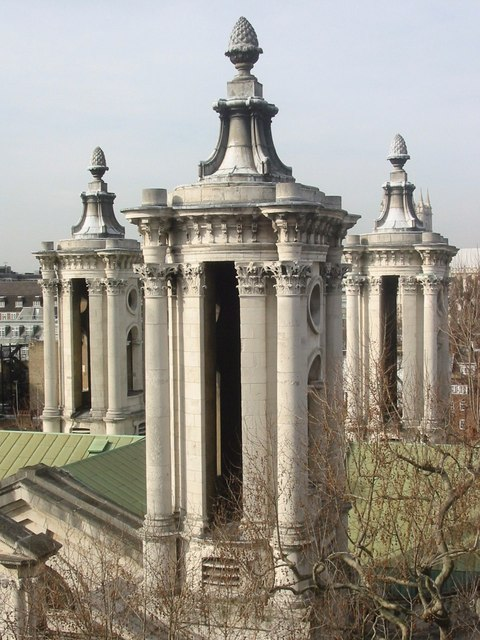 St John, Smith Square The towers of St John. The church was designed by the eminent Baroque architect, Thomas Archer, in 1713-28 (although it's possible that his design was altered in the execution). Grade I listed. It was bombed in 1941, and restored as a concert hall by Marshall Sissons in 1965-69.